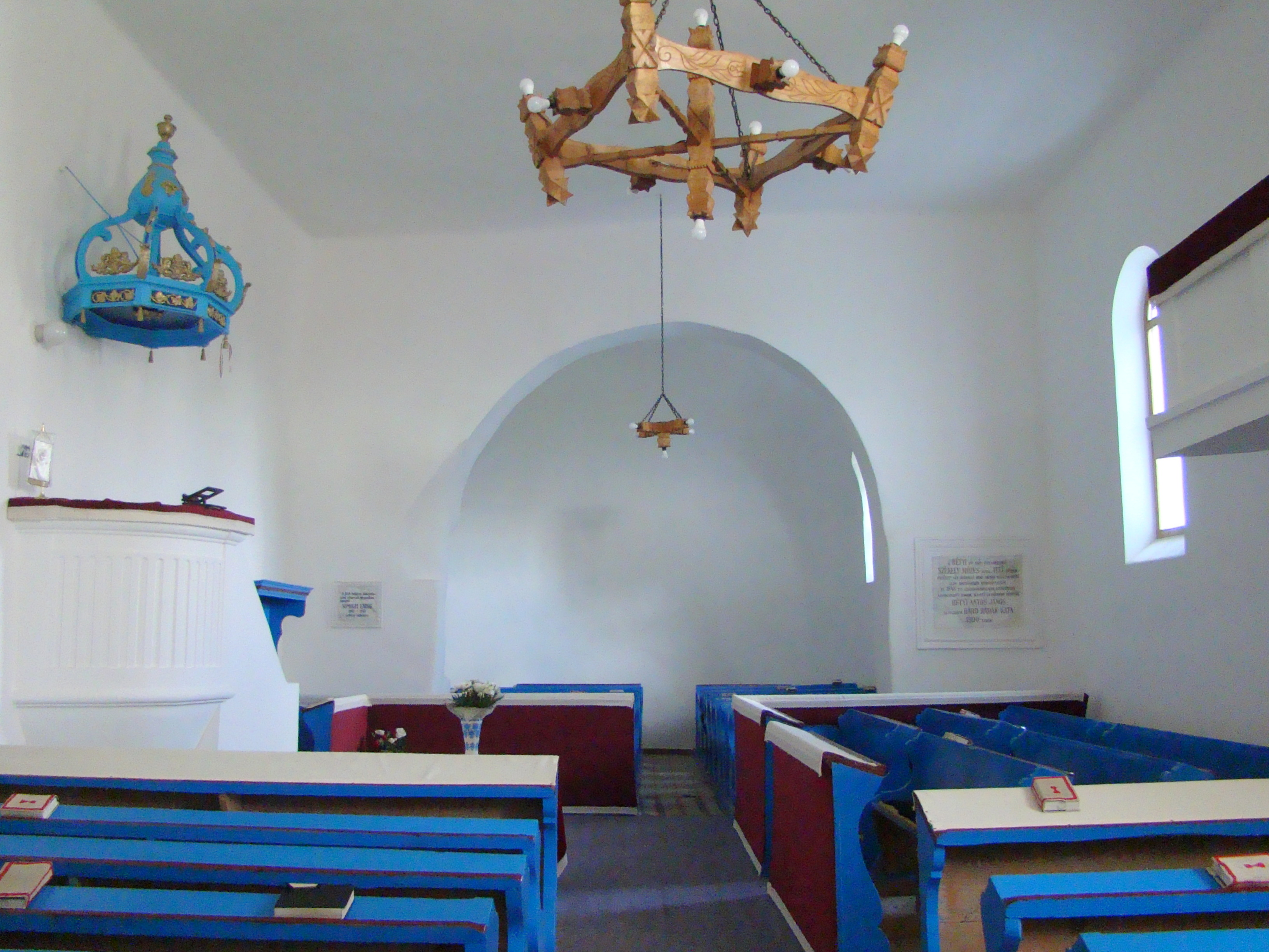 Reformed church in Reci, Covasna County, Romania